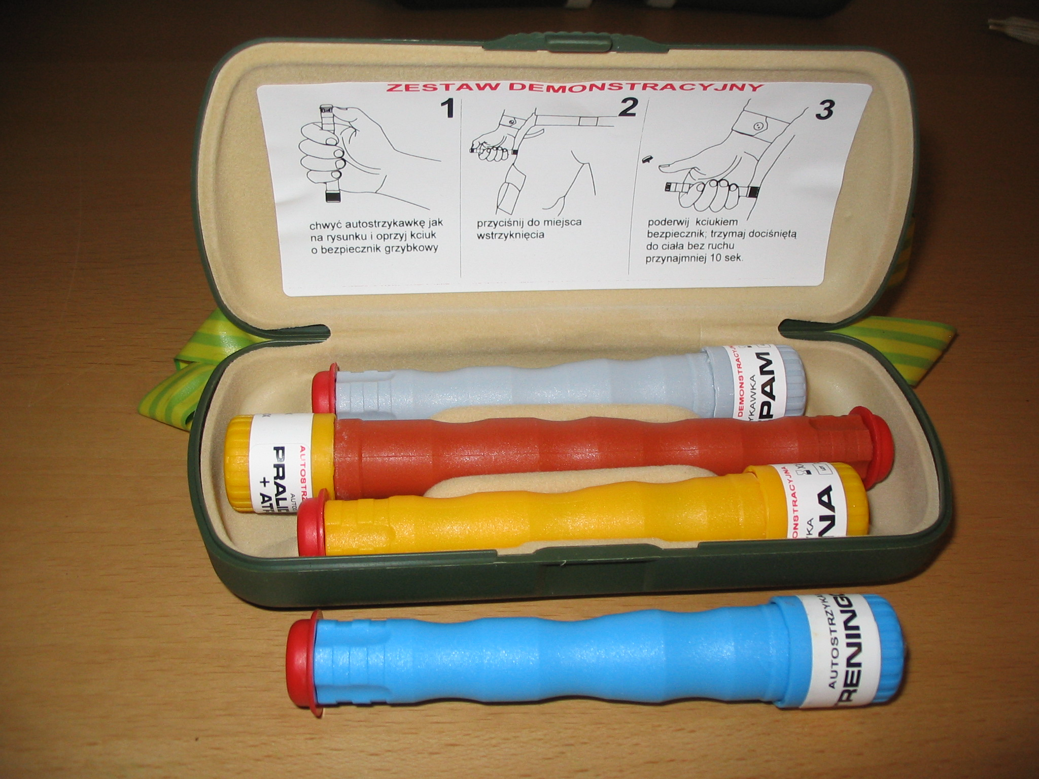 autoinjectors individual kit wzor 05, demo version, inside